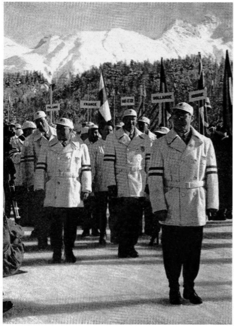 Avery Brundage (right), vice president of the IOC and president of the USOC, leads the US delegation at the Opening Ceremony of the Winter Olympics at St. Moritz, Switzerland. The report is copyright 1949; there is no indication that it was ever registered with the copyright office or was renewed in 1976 or 1977 per the volumes of copyright entries available on Google Books.